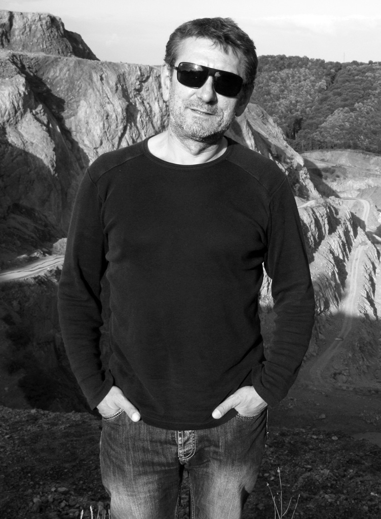 A portrait of the multimedia artist Slobodan Peladić